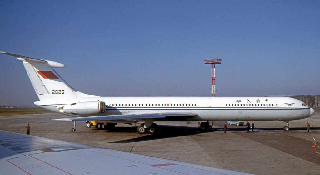 Ilyushin Il-62 2026 of the Chinese CAAC at Moscow Sheremetyevo Airport in 1974